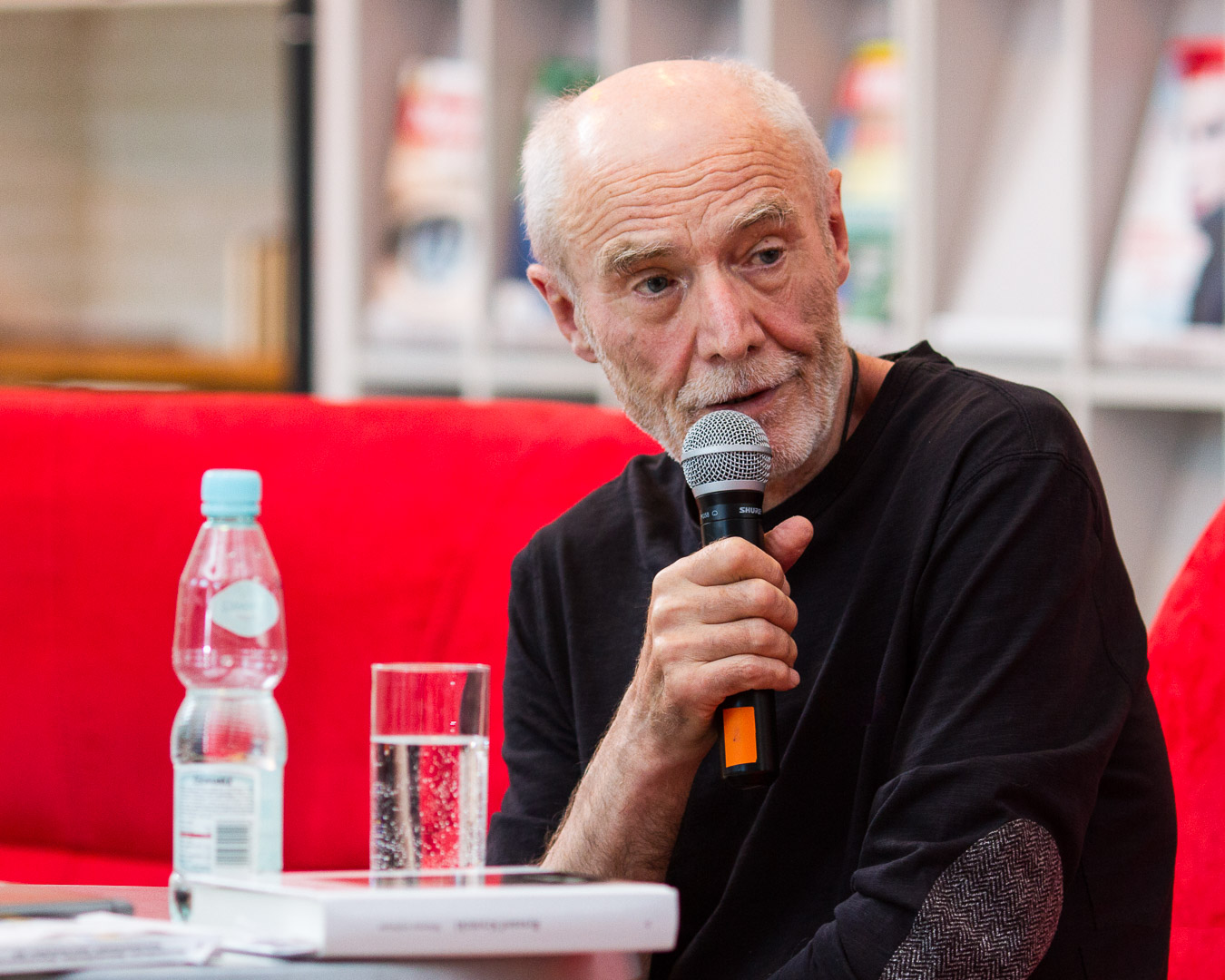 Ryszard Krynicki on Authors’ Reading Month 2015, Wrocław, Poland